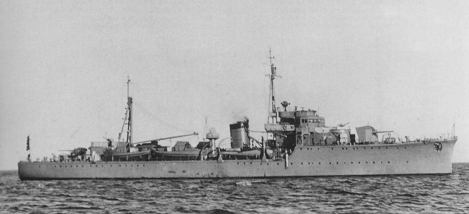 Japanese Survey Ship "Tsukushi" at Yokohama Port.